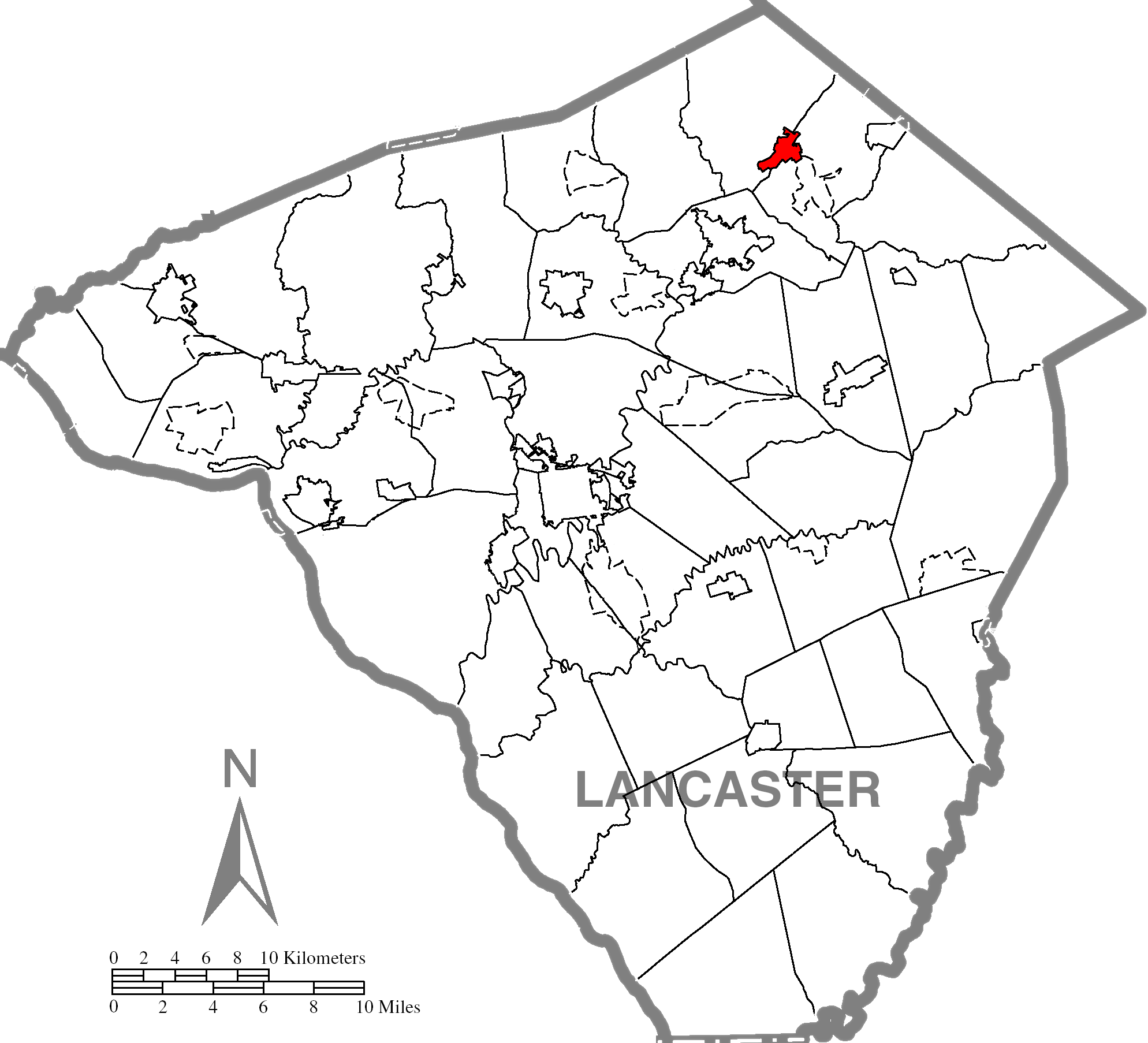 Highlighted Lancaster County map of Denver.